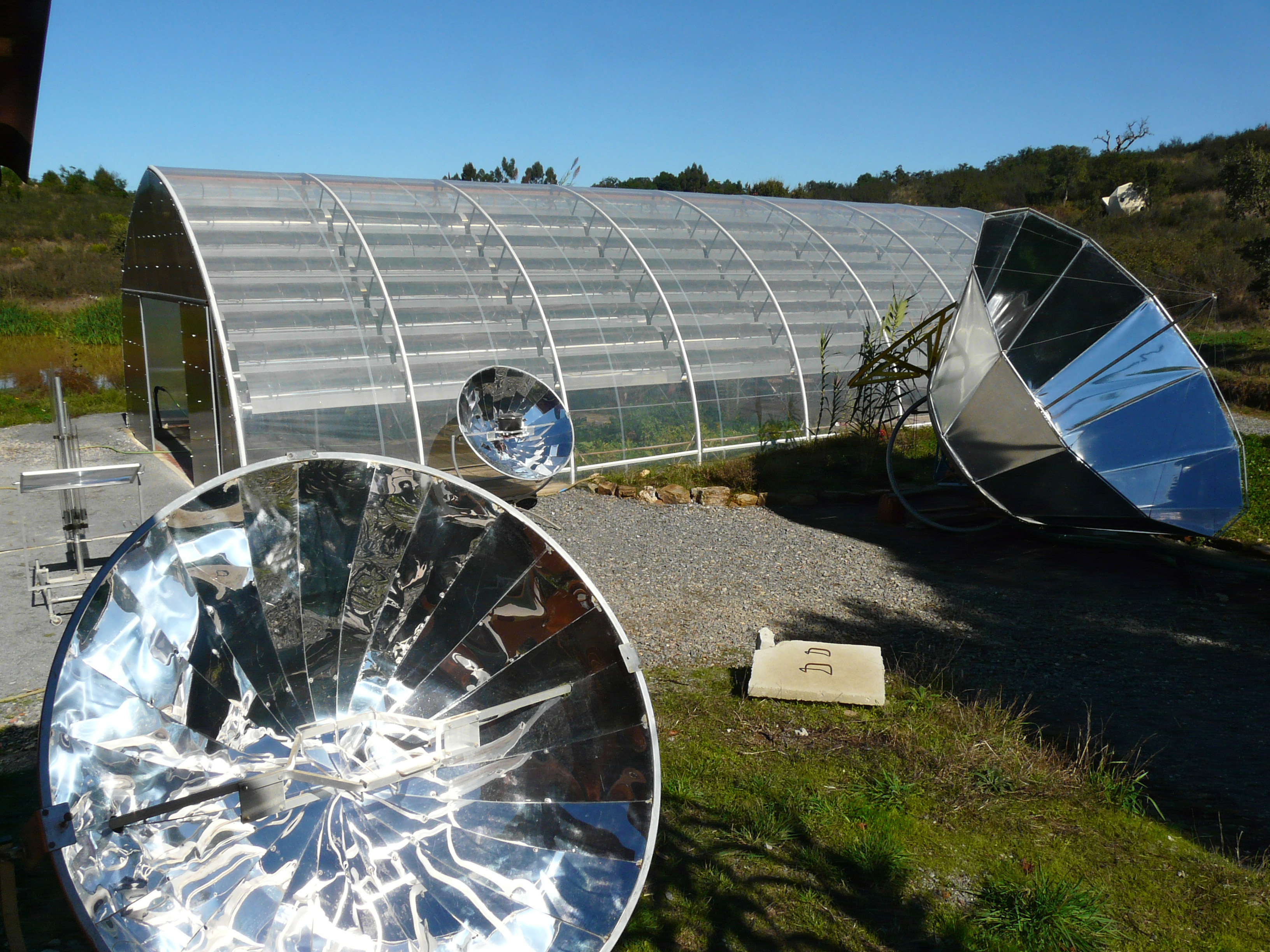 Sunpulse Technology in Tamera